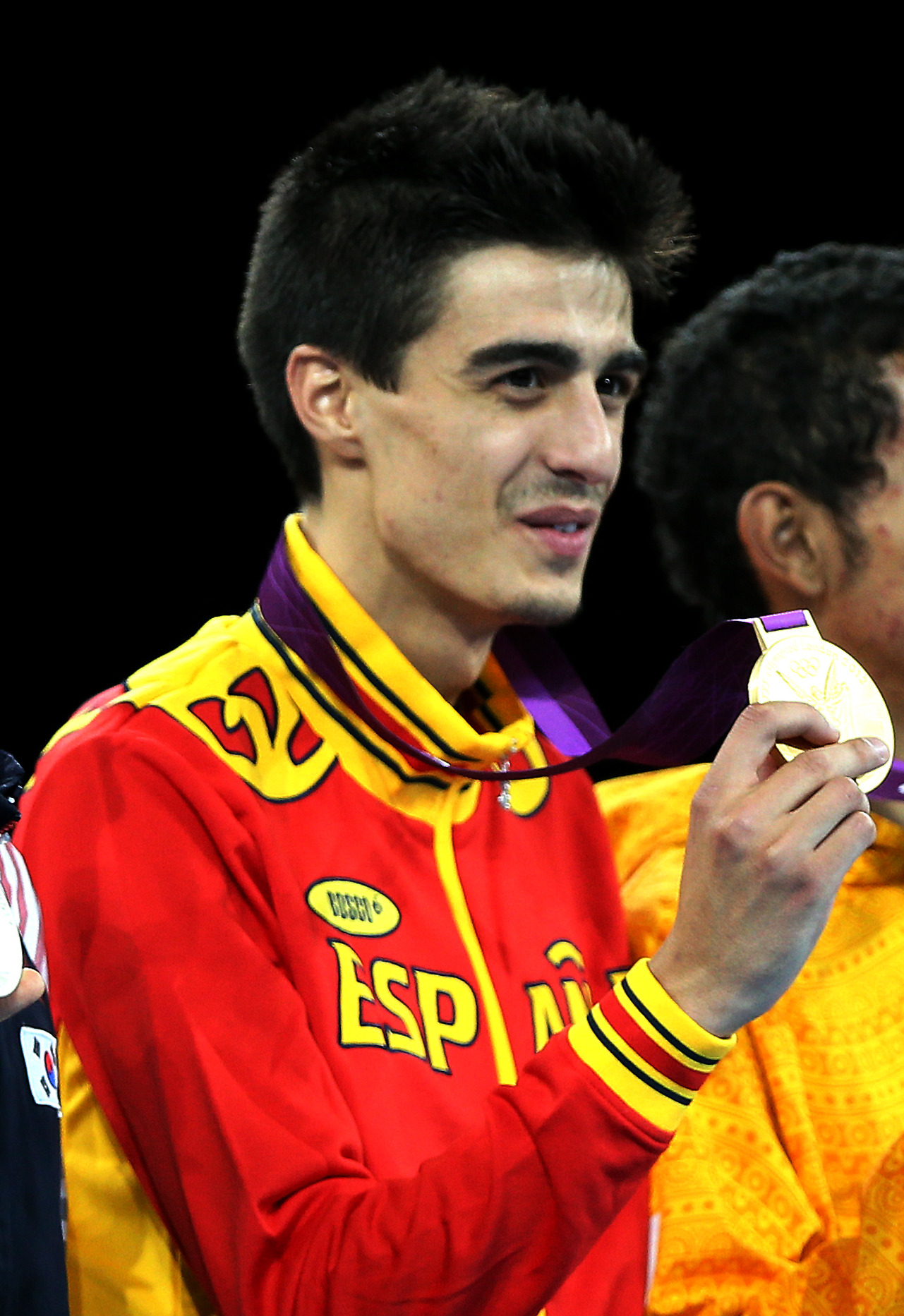 2012 London Olympic Games 2012.08.09 Photo by Korean Olympic Committee Ministry of Culture, Sports and Tourism Korean Culture and Information Service 2012 런던 올림픽 남자 태권도 -58kg 이대훈 은메달 획득 사진제공 - 대한체육회 문화체육관광부 해외문화홍보원